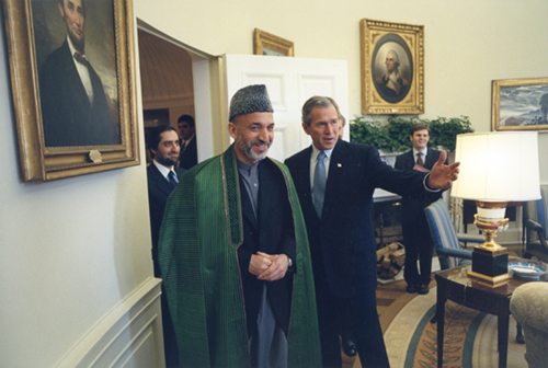 President Bush welcomes Afghan Interim Authority Chairman Hamid Karzai in the Oval Office in January of 2002.